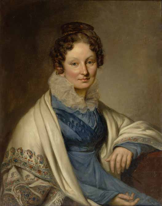 Sophia Ivanovna Boratynskaya (1797-1862)